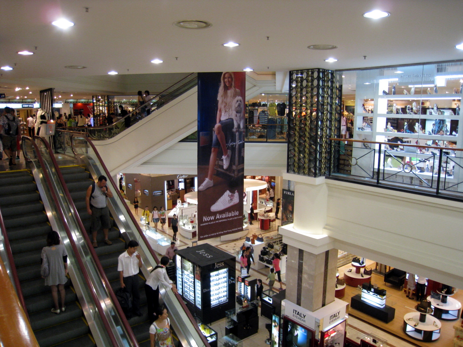 Ho Chi Minh City Diamond Plaza 胡志明市 鑽石廣場